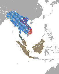 Distribution map of the 3 slow loris species of South and Southeast Asia order Primates, family Lorisidae, genus Nycticebus. Legend Red — Pygmy Slow Loris (Nycticebus pygmaeus). Blue — Bengal Slow Loris (Nycticebus bengalensis). Purple — Sunda Slow Loris (Nycticebus coucang).